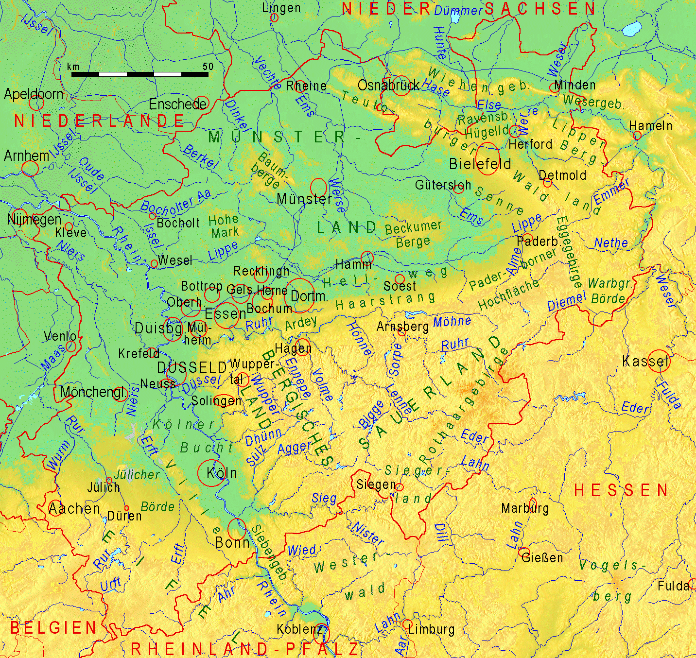 Landscapes and rivers of Northrhine-Westphalia